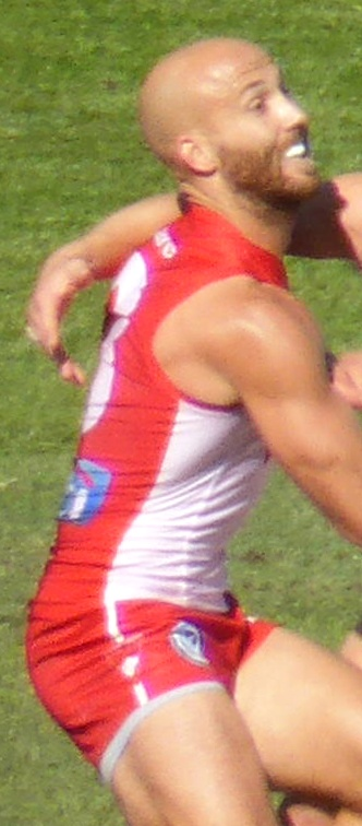 Sydney captain Jarrad McVeigh during a match against Brisbane in round 6 of the 2013 AFL season